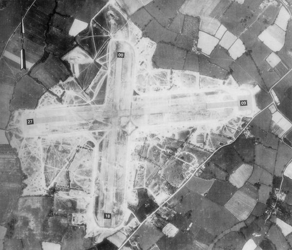 Aerial photograph of Headcorn Advanced Landing Ground, England.